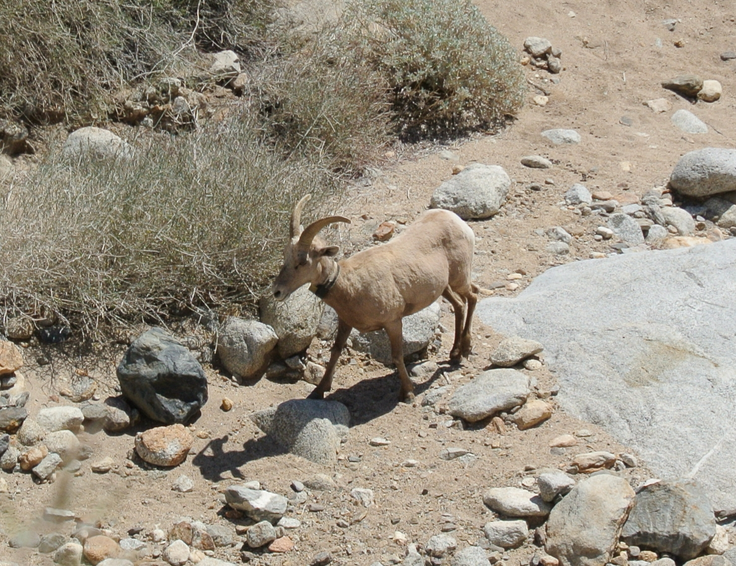 Desert bighorn sheep (probably a female) in a canyon of the Anza-Borrego Desert State Park, California.